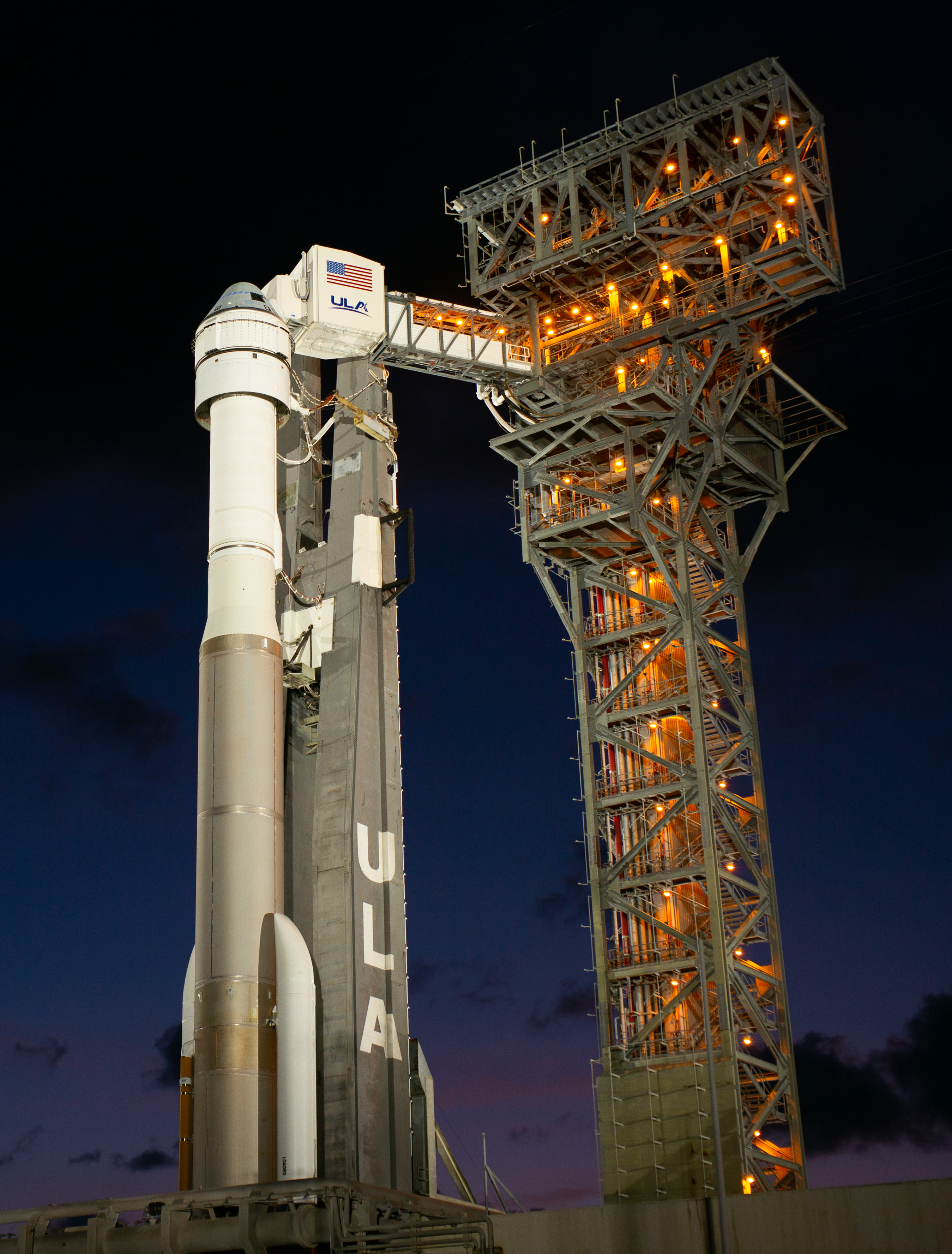 A United Launch Alliance Atlas V rocket with Boeing’s CST-100 Starliner spacecraft onboard is seen illuminated by spotlights on the launch pad at Space Launch Complex 41 ahead of the Orbital Flight Test mission, Wednesday, Dec. 18, 2019 at Cape Canaveral Air Force Station in Florida. The uncrewed Orbital Flight Test will be Starliner’s maiden mission to the International Space Station for NASA's Commercial Crew Program. The mission, currently targeted for a 6:26 a.m. EST launch on Dec. 20, will serve as an end-to-end test of the system's capabilities. Photo Credit: (NASA/Joel Kowsky)